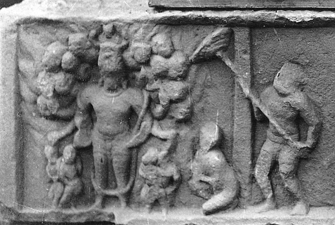 Cosmic Vishnu, Garwha, Gupta period